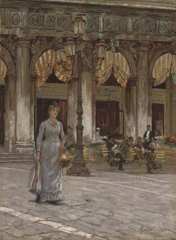 Cafe Chioggia, St. Marks Square, Venice